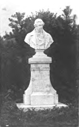 An image of a monumnent derived from Charles Von Hügel, April 25, 1795 - June 2, 1870 (1903), a biography of the melancholic adventurer and naturalist by his son Anatole von Hügel. The caption is "The Hegeldenkmal at Hietzing, Vienna. By Johann Benks, 1901.".